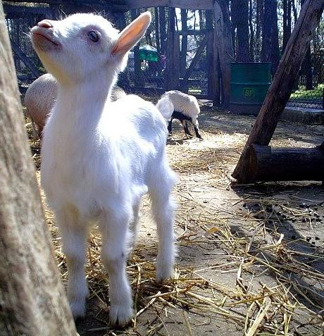 goat